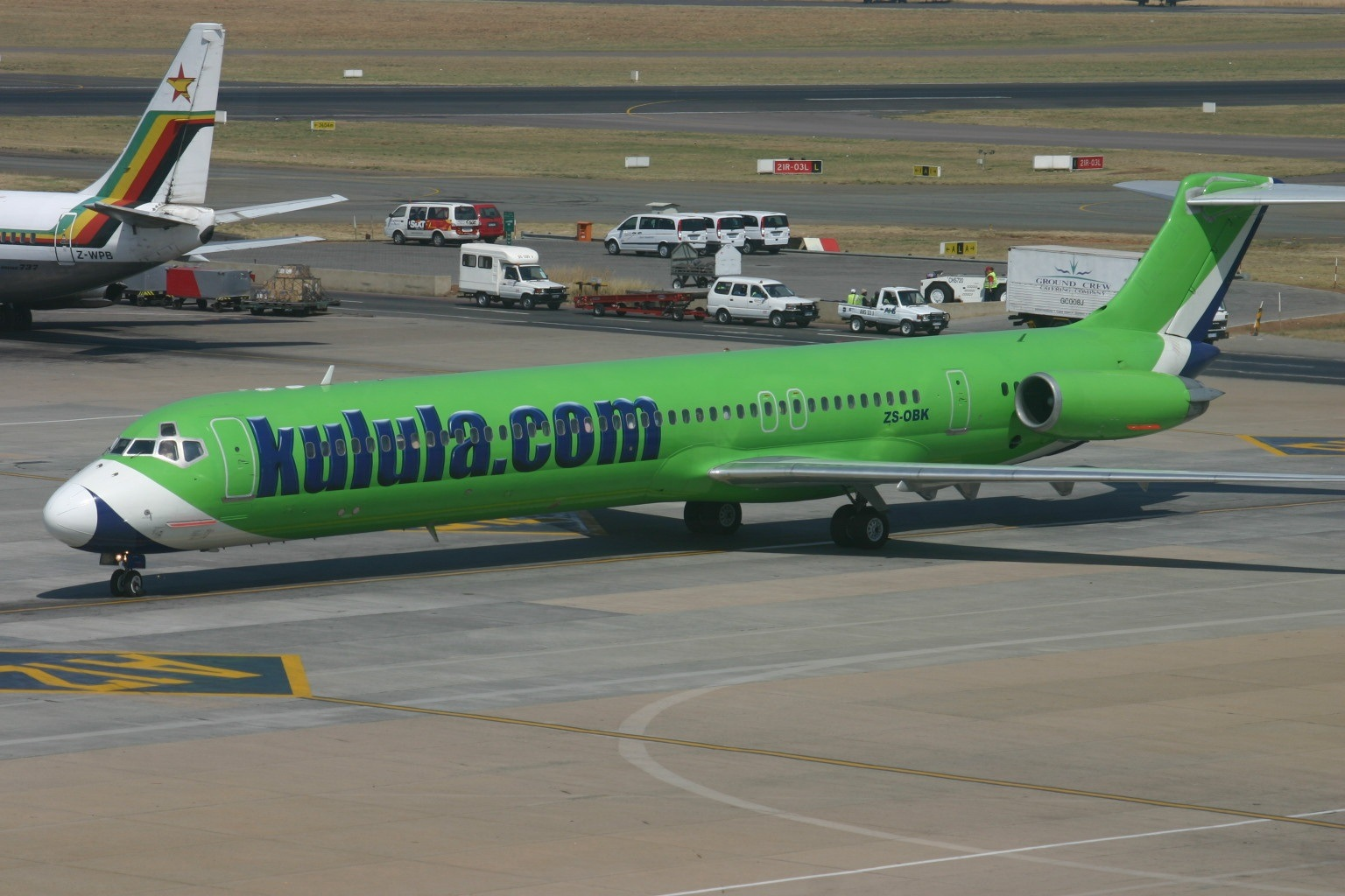 At Johannesburg OR Tambo International